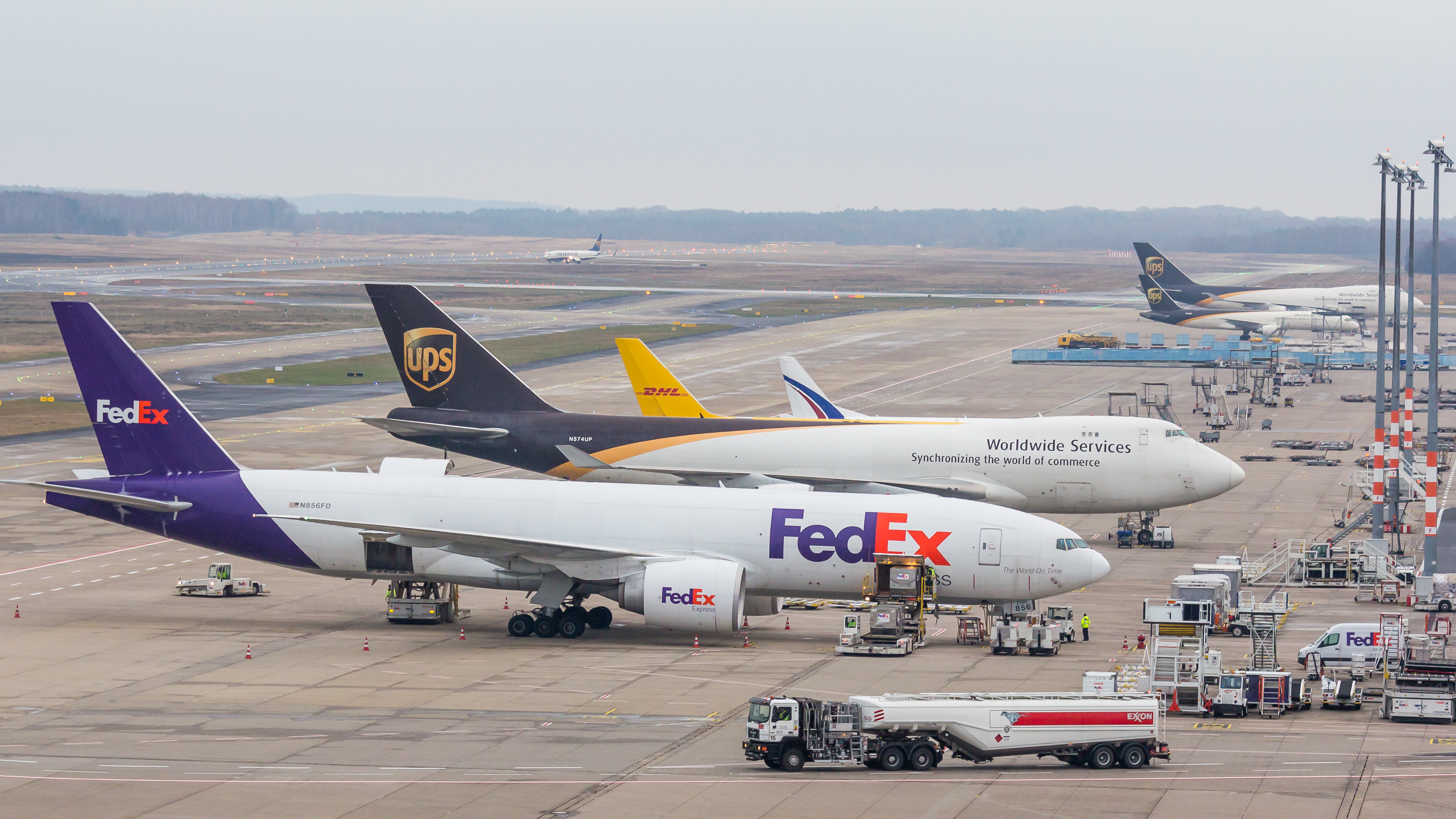 Fedex, Boeing 777F, N856FD and UPS, Boeing 747-400F, N574UP, Cologne Bonn Airport. In the foreground a Exxon tank truck